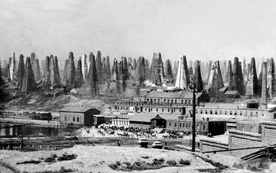 The Branobel wells in Balakhani, a suburb of Baku in Azerbaijan.